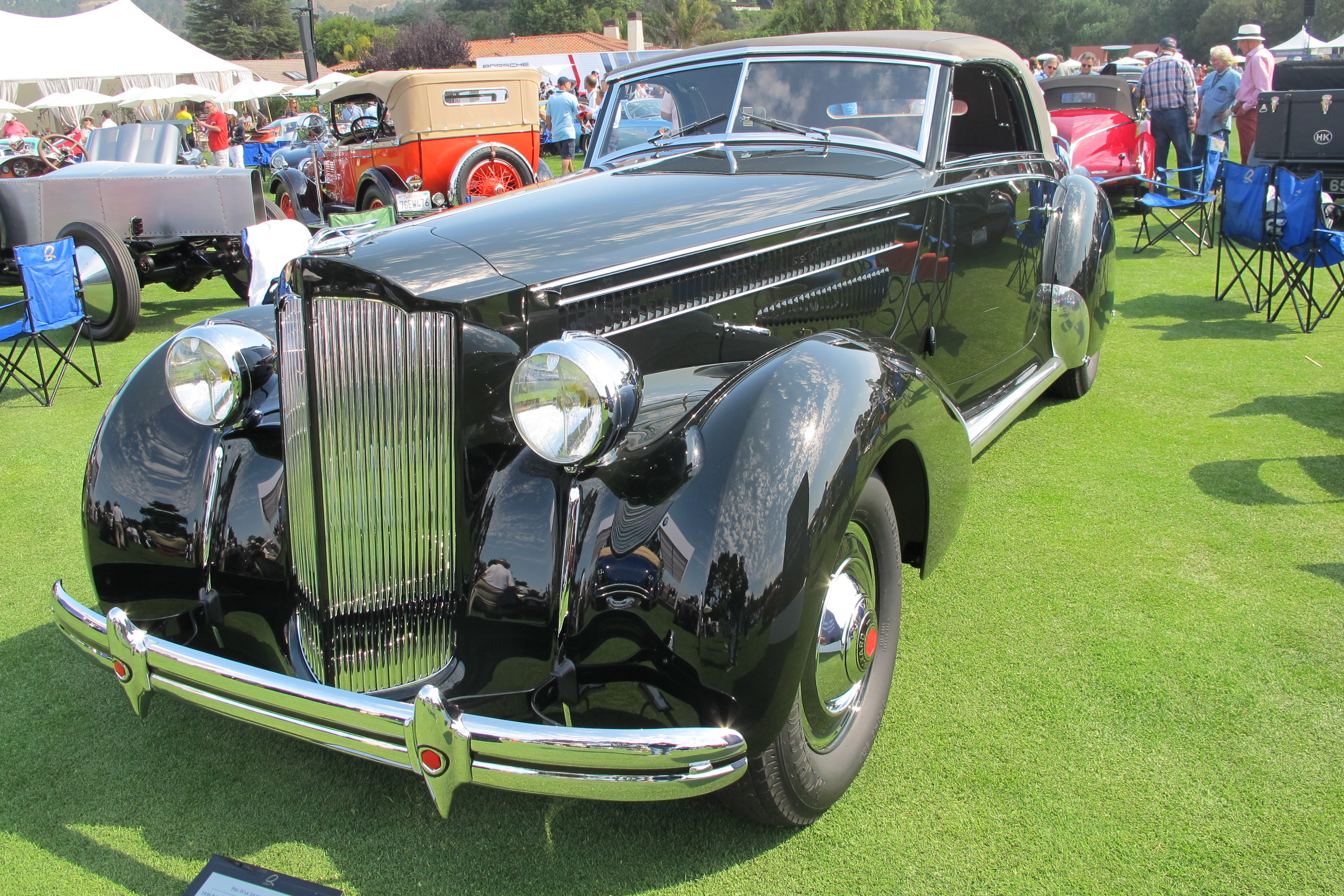 1938 Packard with custom coachwork by Hermann Graber, Wichtrach, Bere, Switzerland, exhibited at the Quail Lodge in Carmel valley, 2017